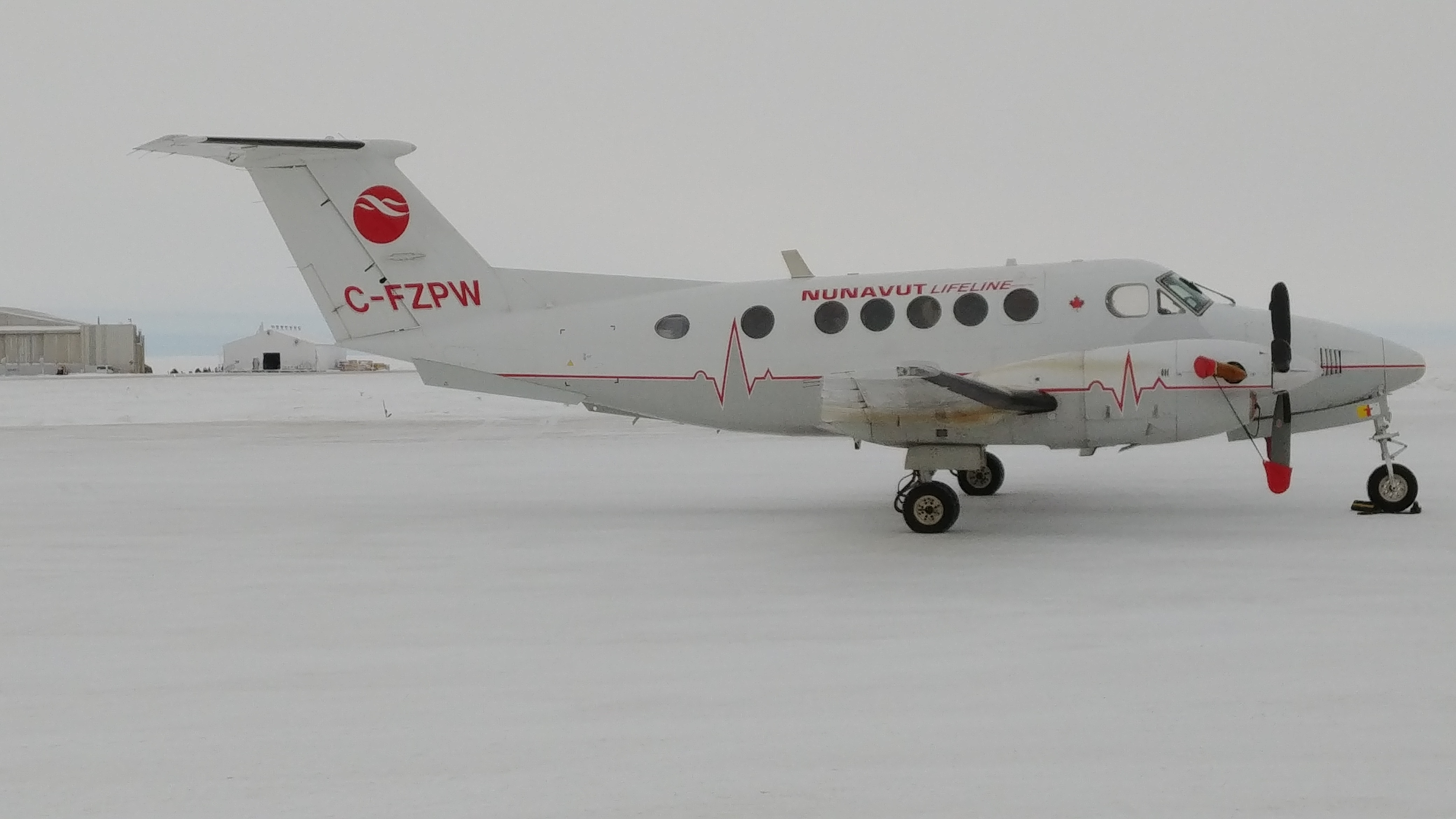 A Keewatin Air (Nunavut Lifeline) BE20 medevac aircraft at Cambridge Bay Airport